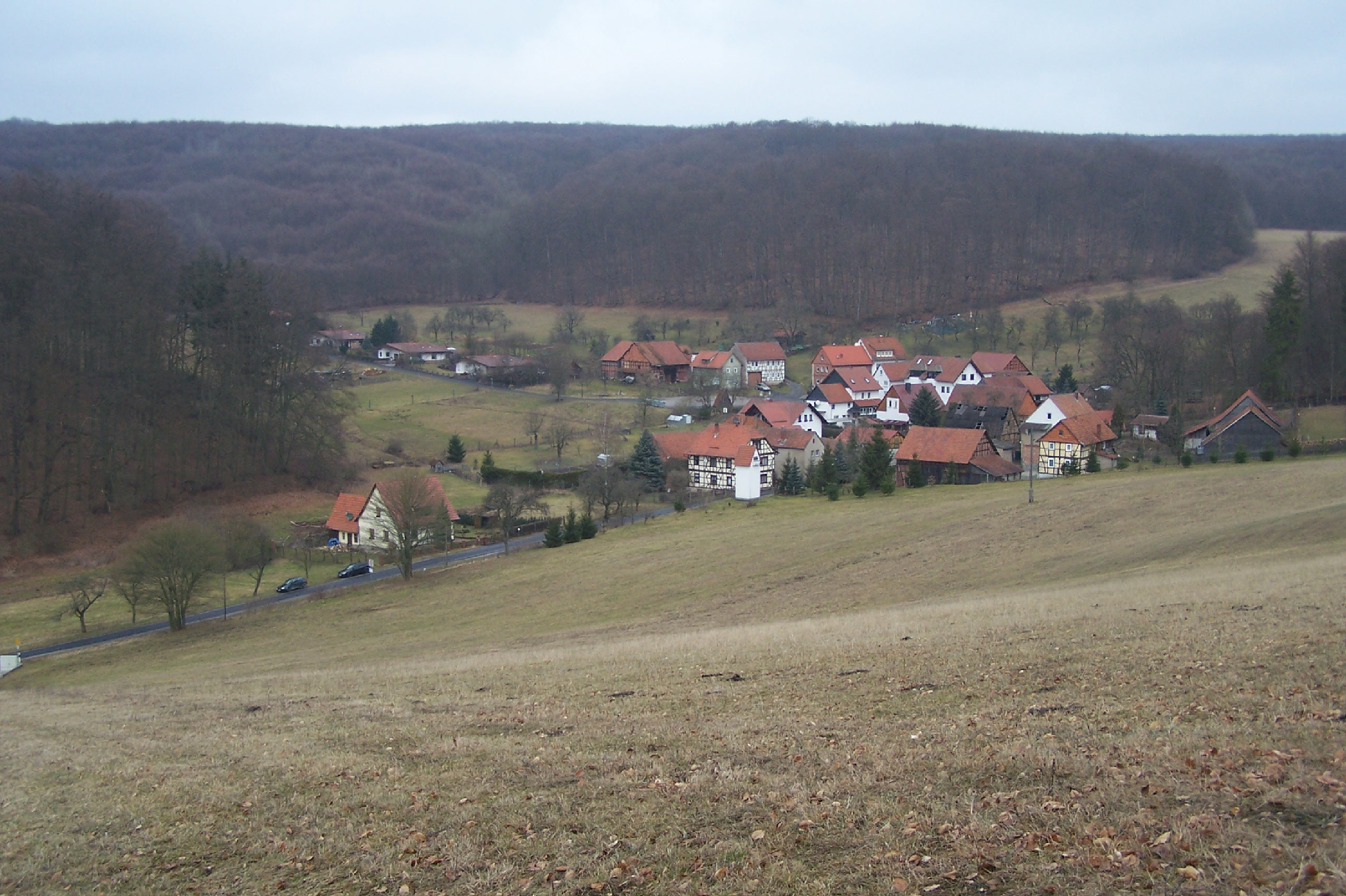 Wolfmannsgehau village.